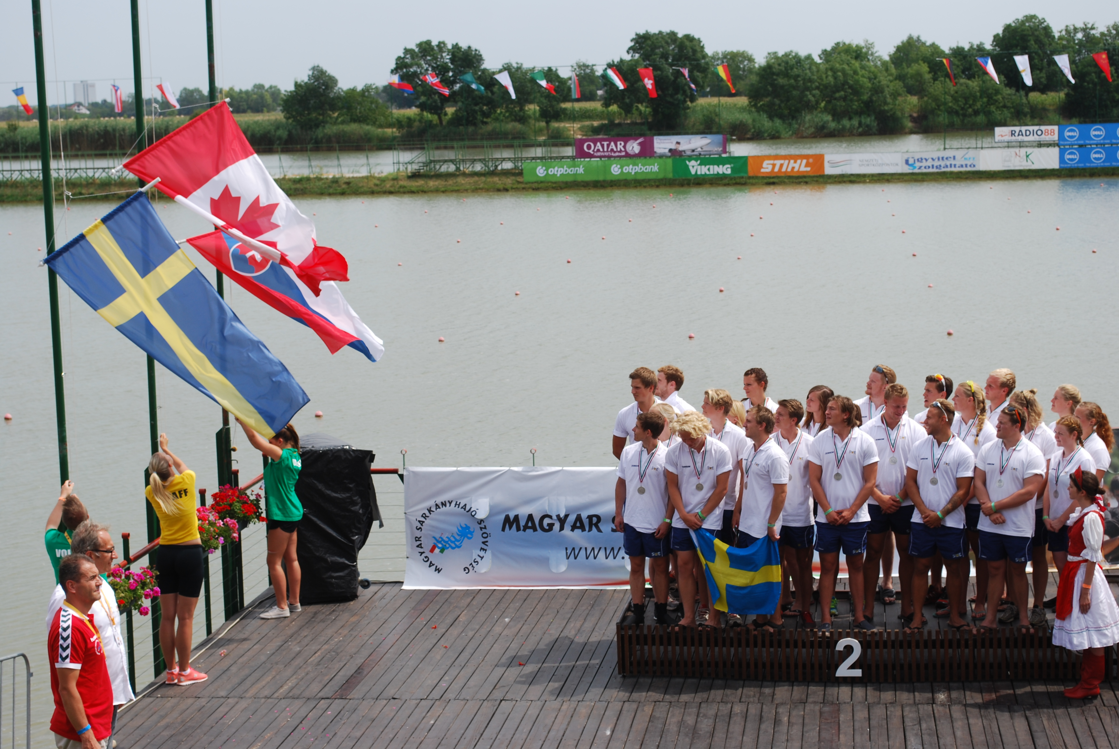 IDBF World Dragon Boat Racing Championships 2013 in Szeged, Hungary. Standard boat U24 mixed 1000 meter medal ceremony. Canada won gold, Sweden won silver and Slovakia won bronze. Flags and the Swedish team on the image.